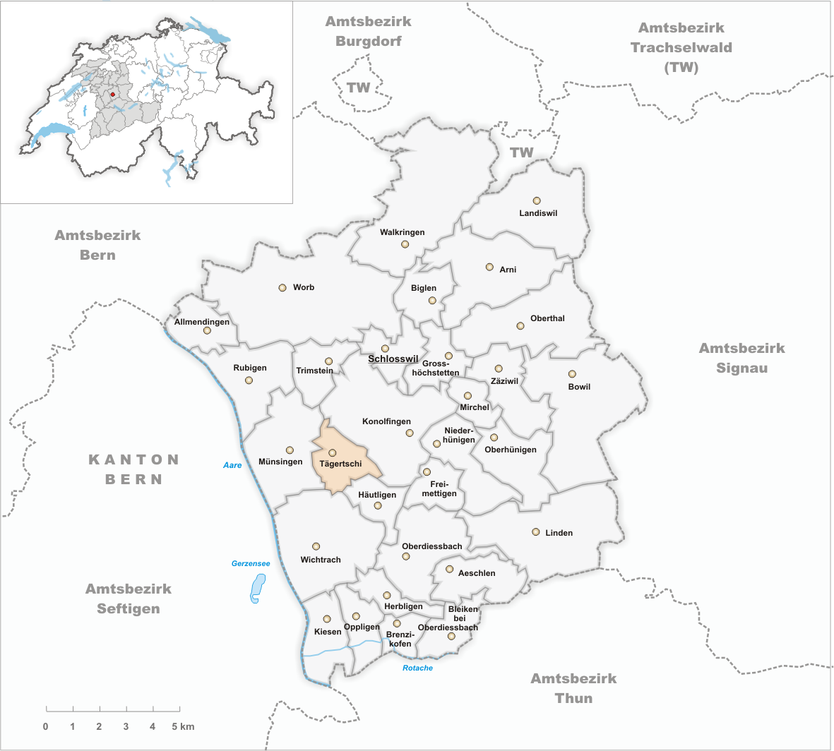 Municipality Tägertschi